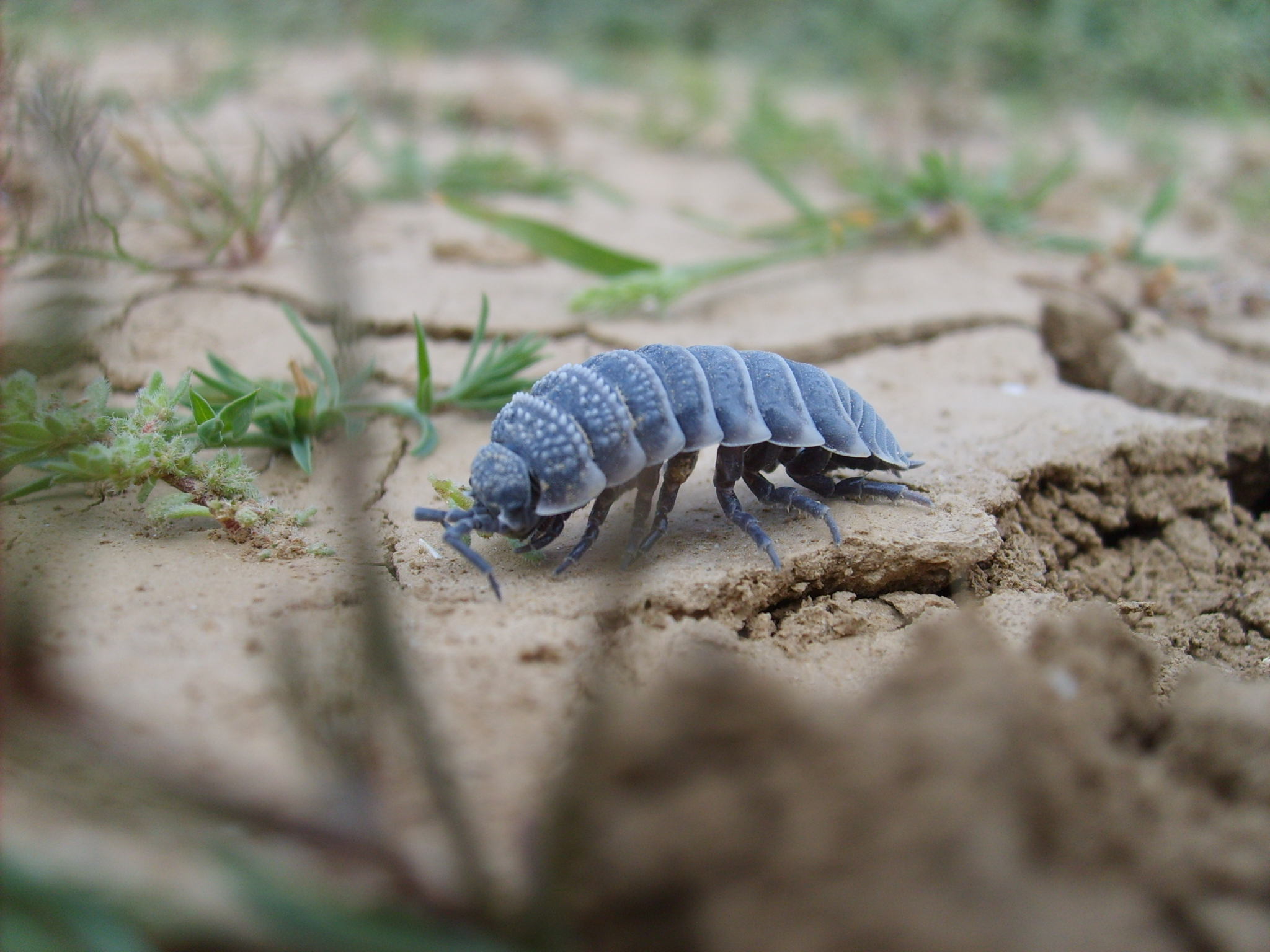 A desert isopod Hemilepistus reaumuri in its original habitat in Tunisia.